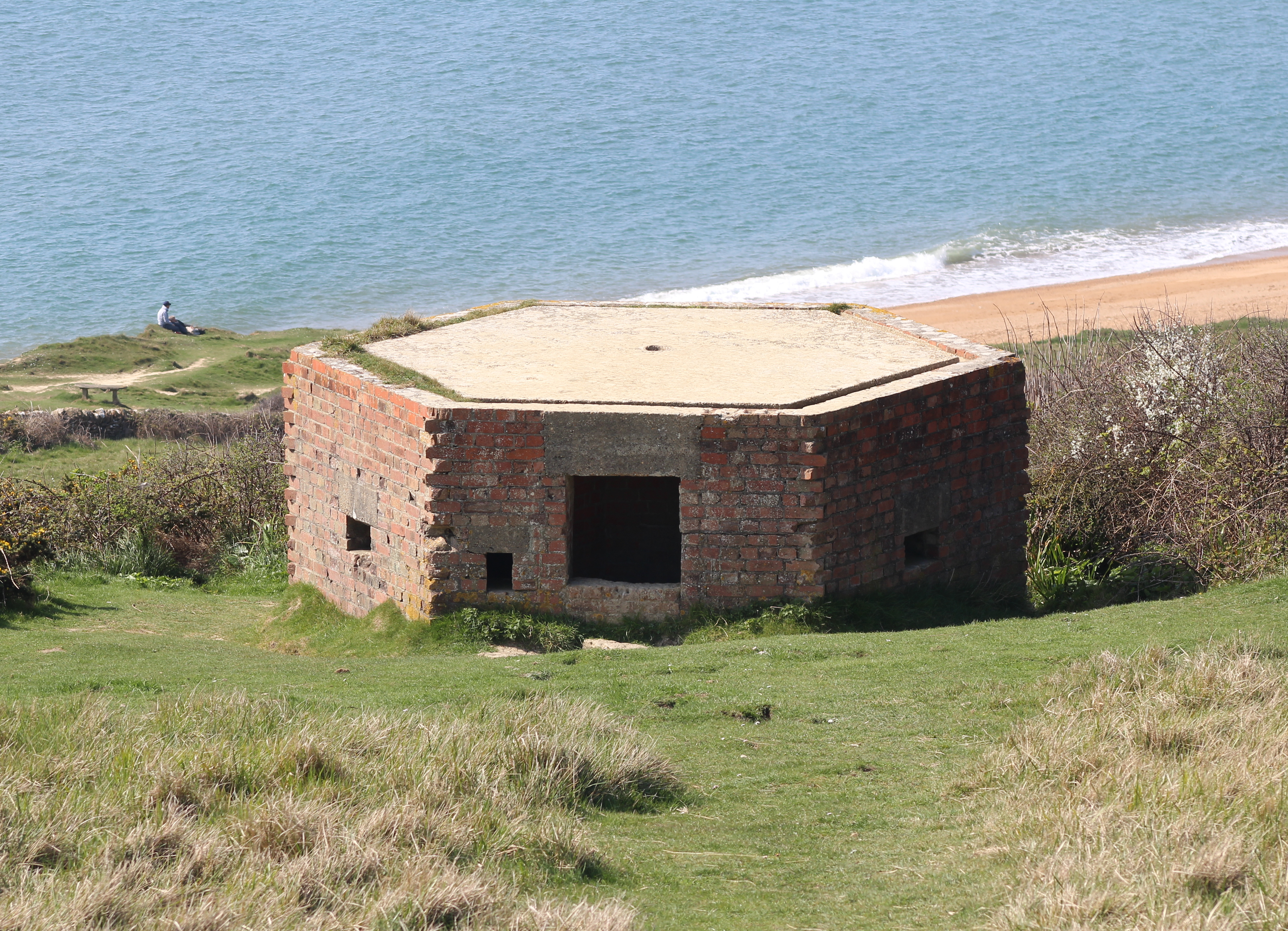 A Type 24 World War II pillbox[1] on a cliff above Hive Beach at Burton Bradstock viewed from the rear overlooking the English Channel. The pill-box, which 44 metres above sea level, is located on a National Trust property.[2]